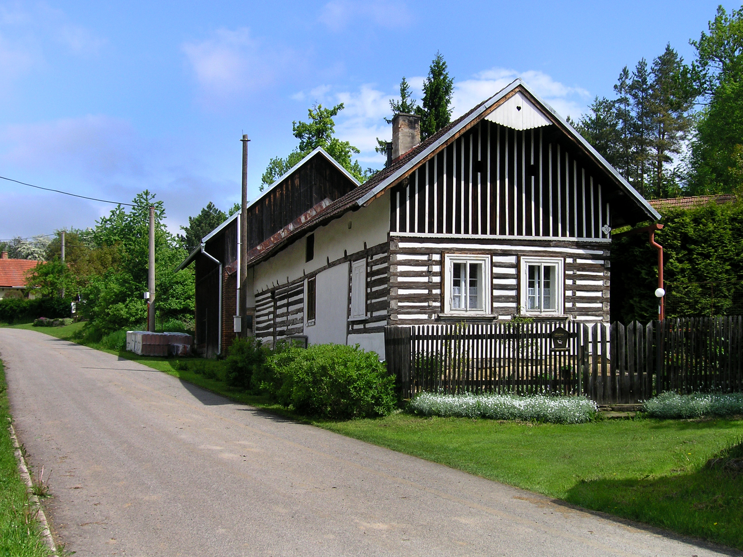 Keteň, part of Jičíněves village, Czech Republic